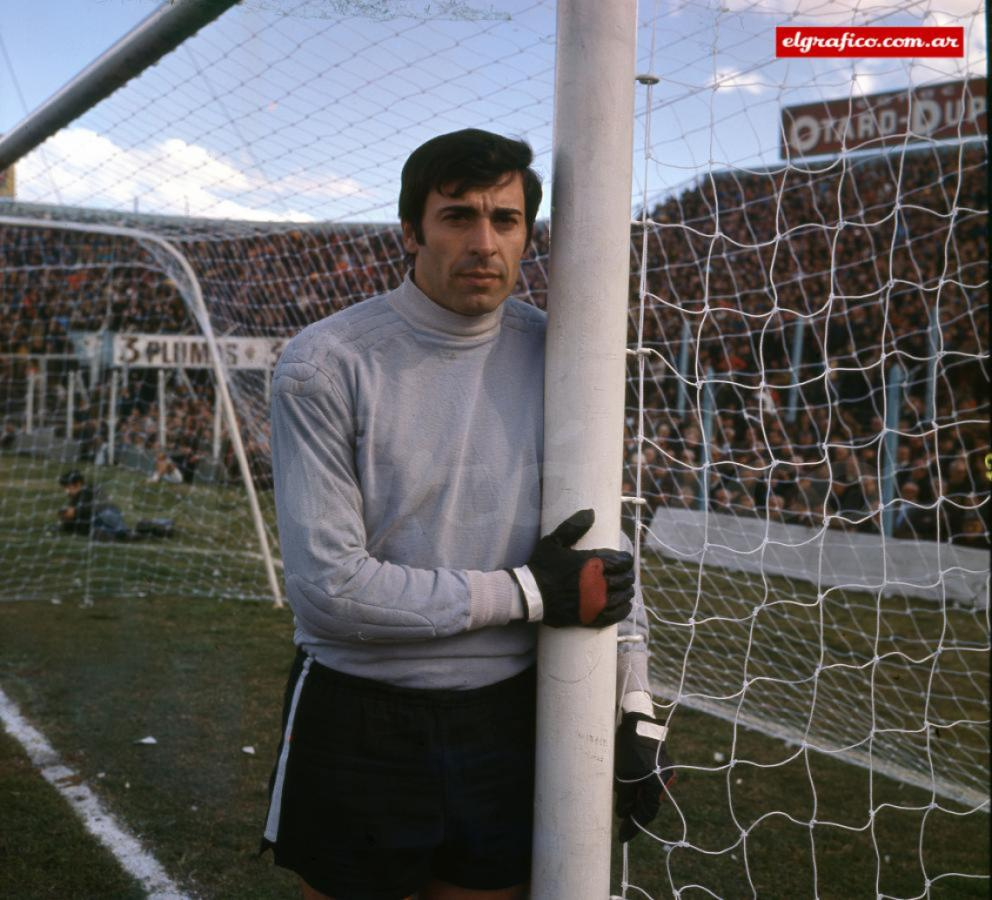 Racing Club goalkeeper, Agustín M. Cejas, posing